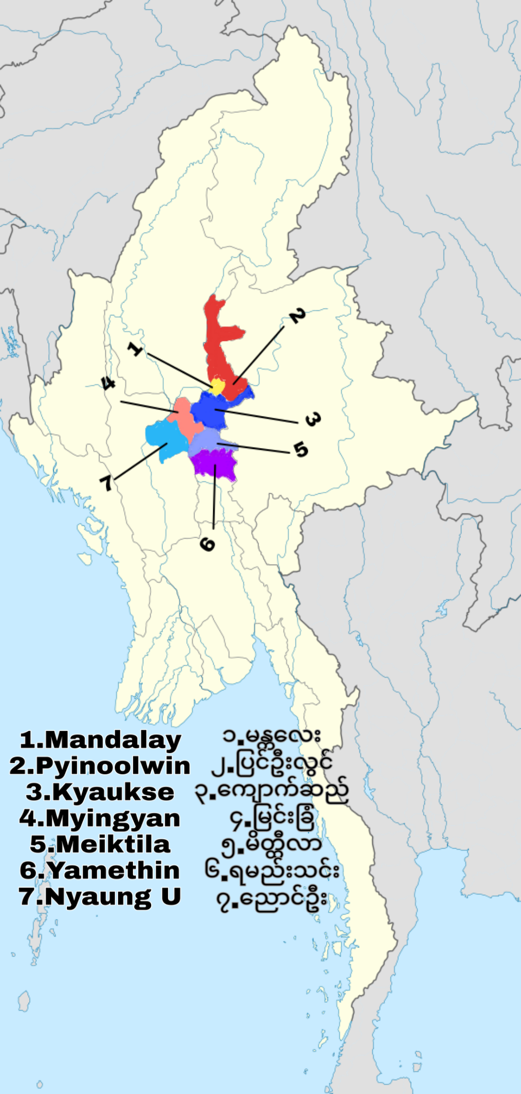 Districts of Mandalay Region with lable.